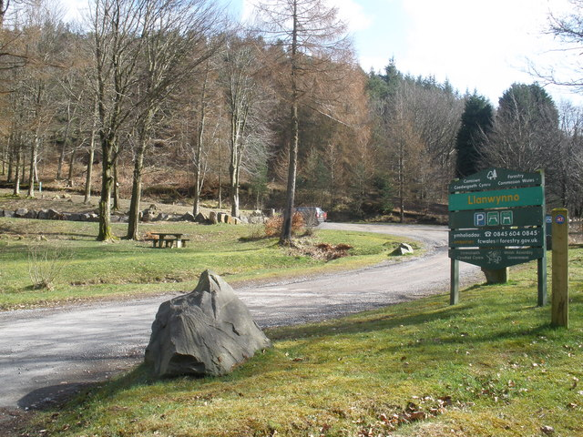 Forestry Commission picnic site, at Llanwynno